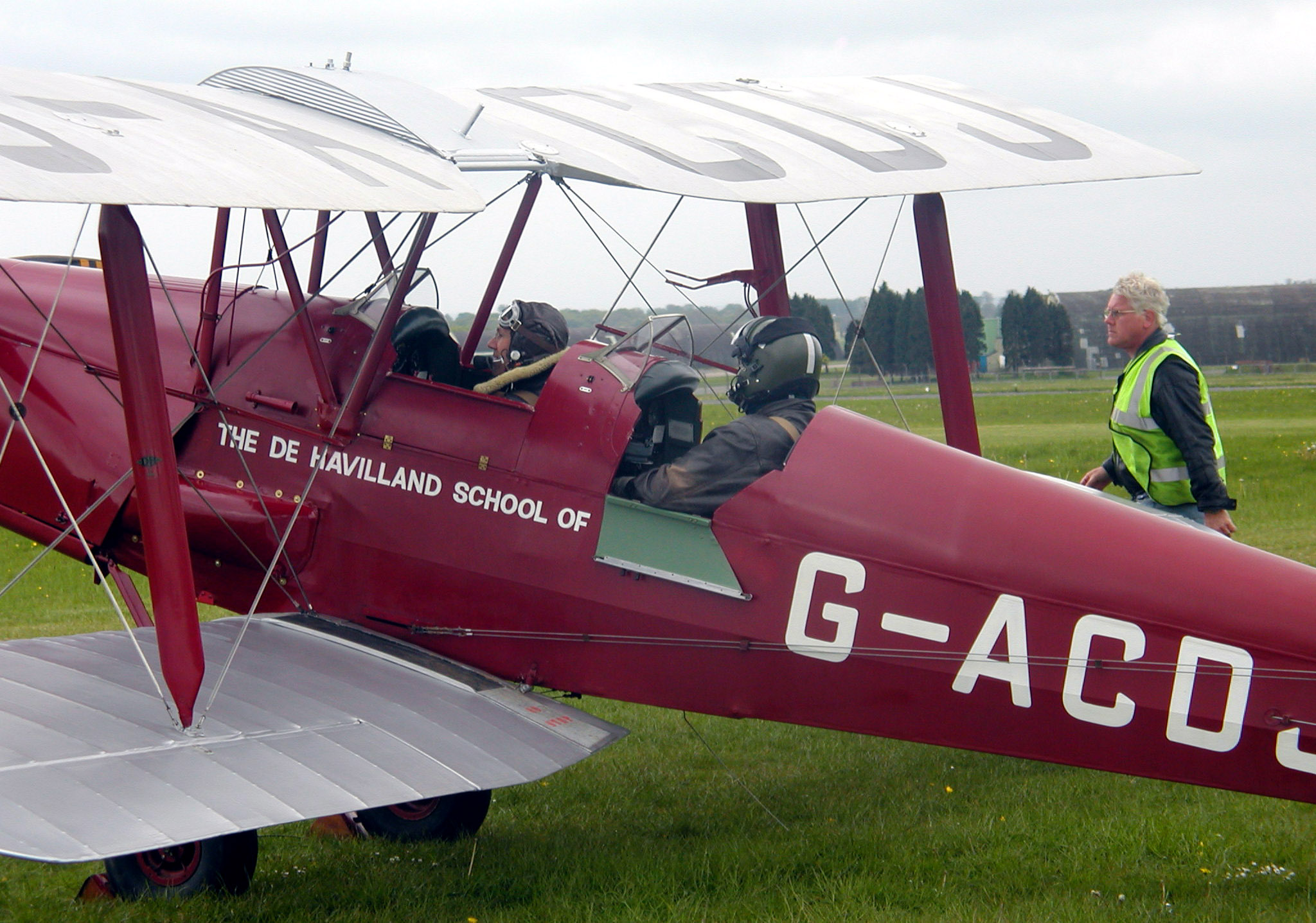 de Havilland DH82a Tiger Moth (UK registration G-ACDJ, year of build 1933) at Kemble Airfield, Gloucestershire, England. Photographed by Adrian Pingstone in May 2005 and released to the public domain.